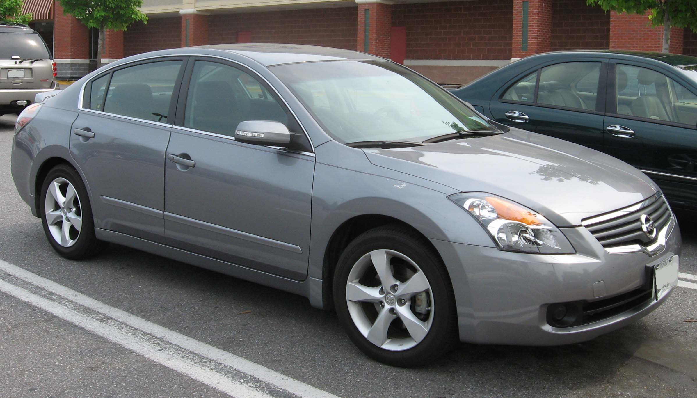 2007 Nissan Altima photographed in USA.